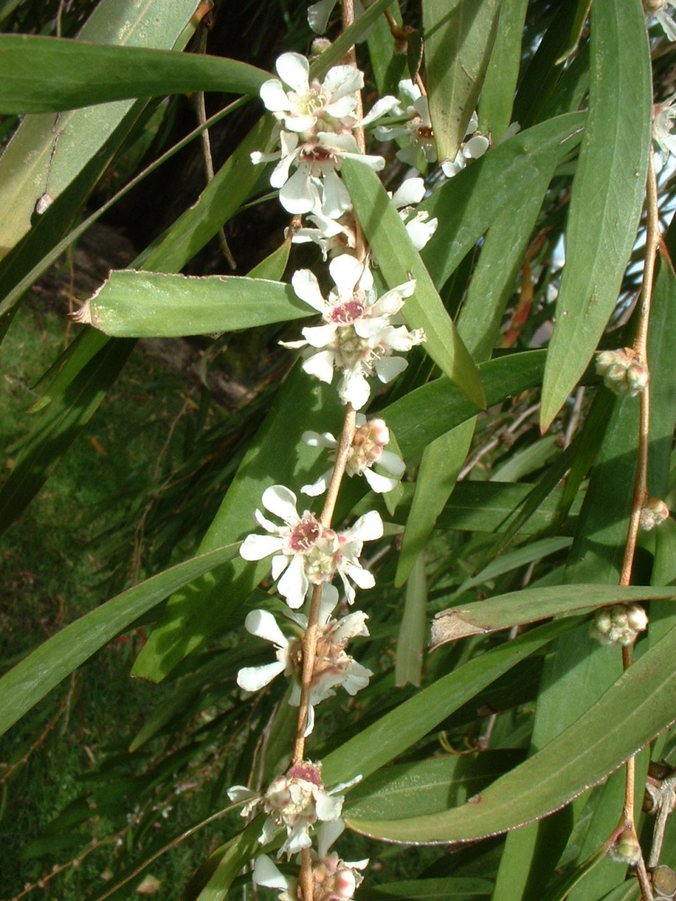 Flowers of Peppermint tree (Agonis flexuosa)